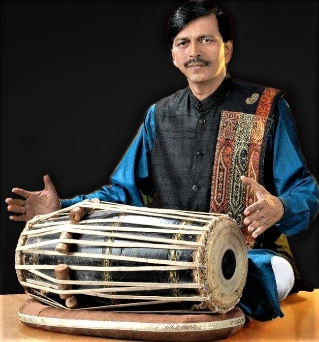 Guru Dhaneswar Swain Playing Mardala (3)